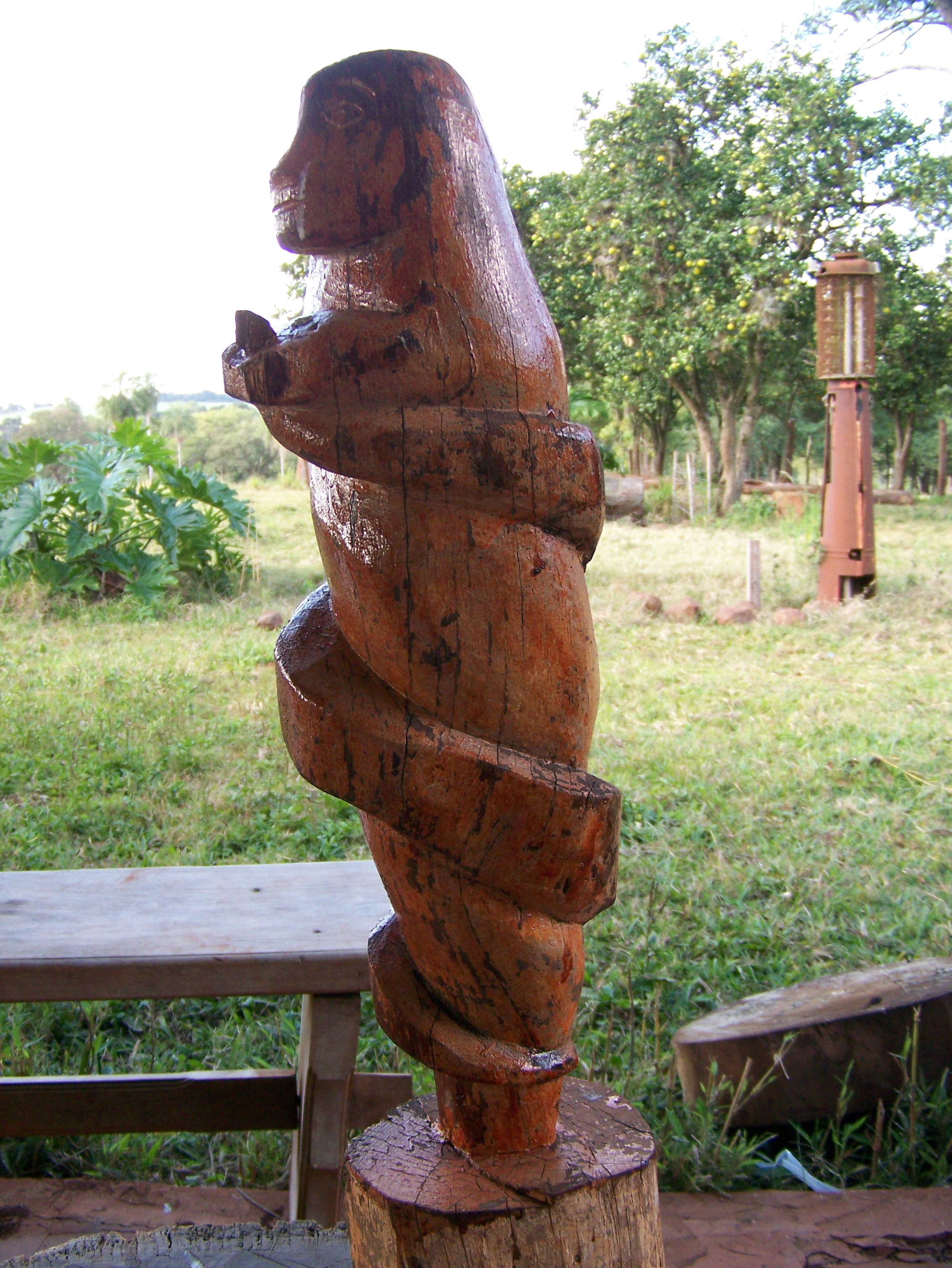 Wood carving made by Pai Tavytera Indians on a popular mythological creature KURUPI